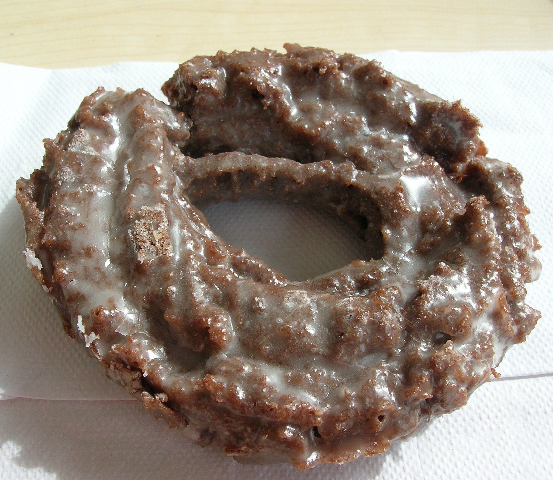 A sour cream doughnut incorporates sour cream into the batter. This type of doughnut is dipped in a vanilla flavored glaze after frying and usually has no filling. Pictured is a variation: a chocolate sour cream doughnut.